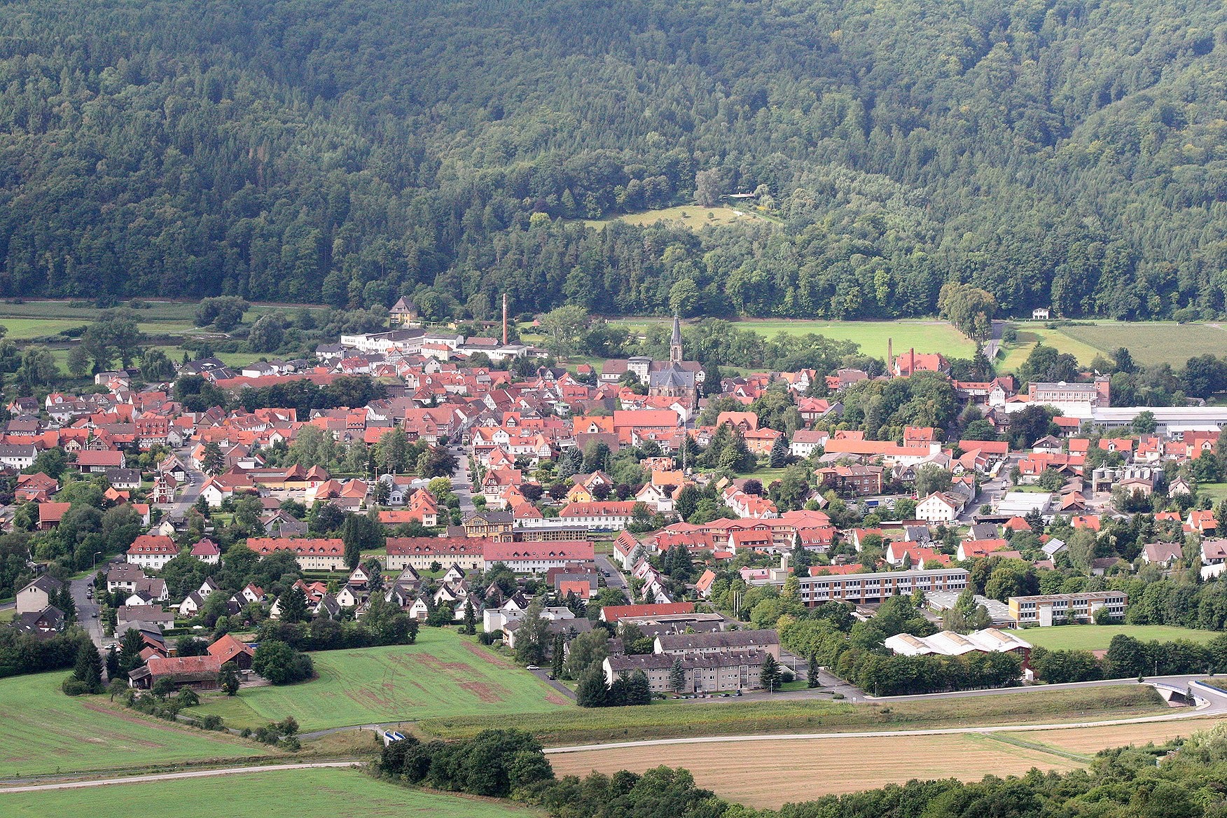 Wanfried vom Plesseturm (im Hintergrund der Beckersberg im nördlichen Schlierbachswald)